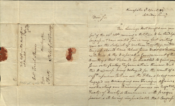 Correspondence from John Beatty, a member of the Continental Congress, Major, Sixth Penn. Regiment in the Revolution, to Israel Shreve on April 3, 1784. Sent from Annapolis.